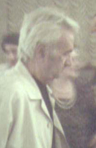 Alexander Arutunian